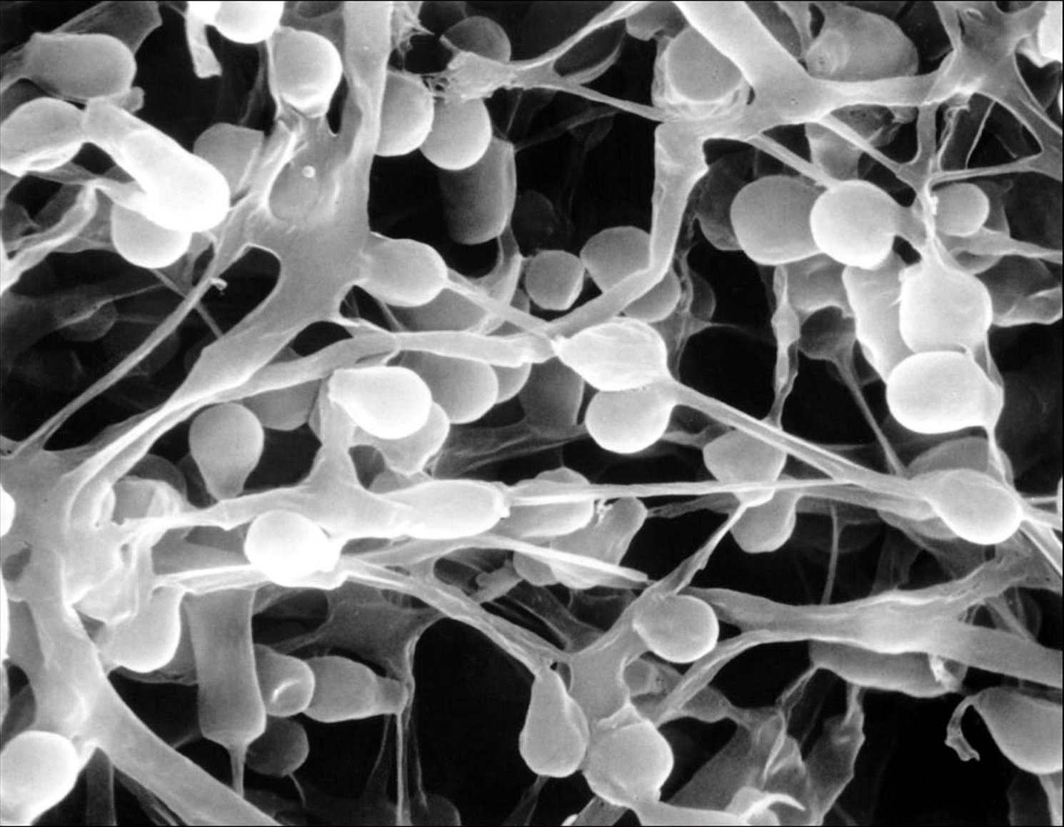 This figure represents the microscopic view of Athlete's foot fungus.